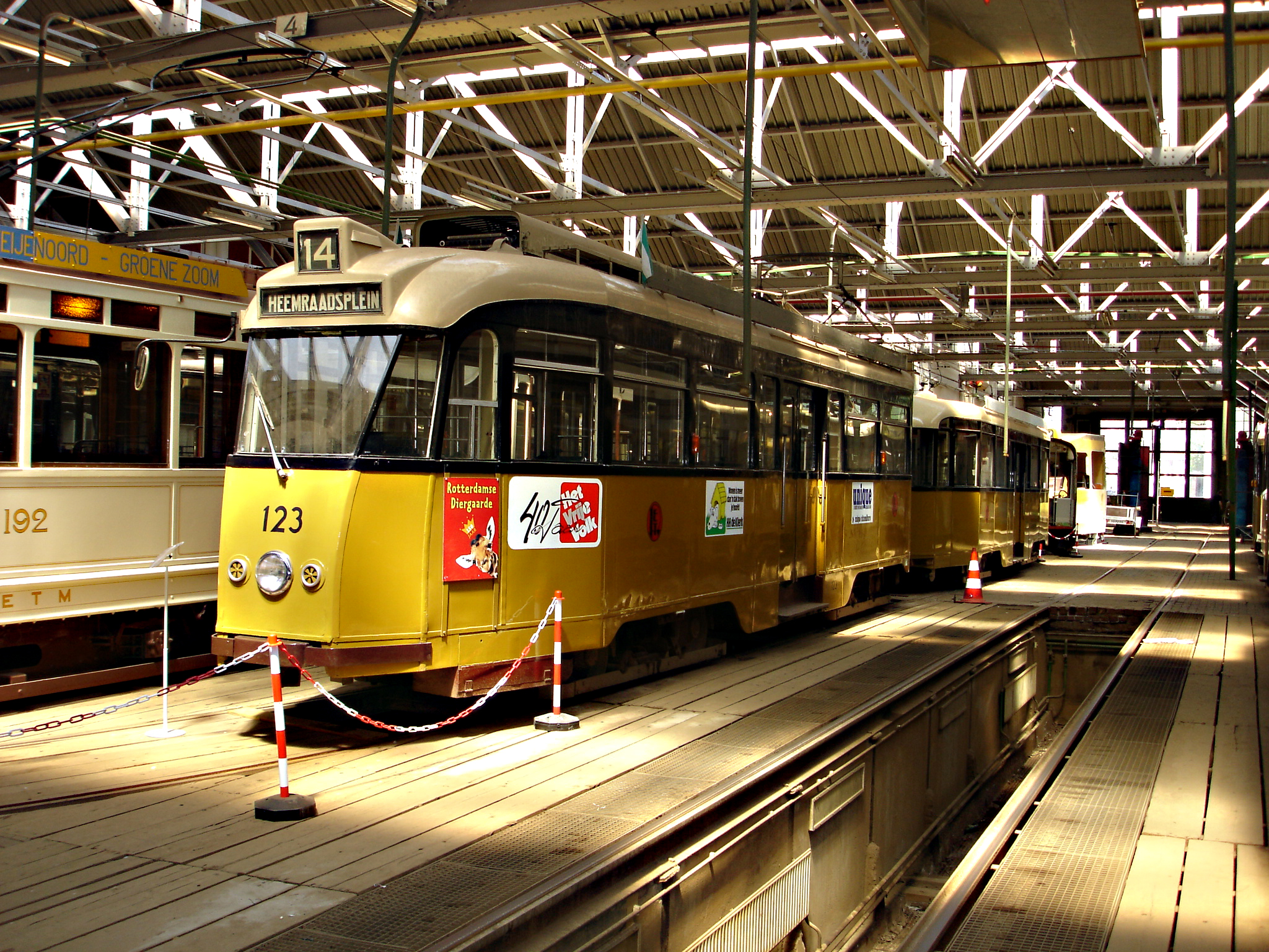 Tram 123 Trammuseum Rotterdam